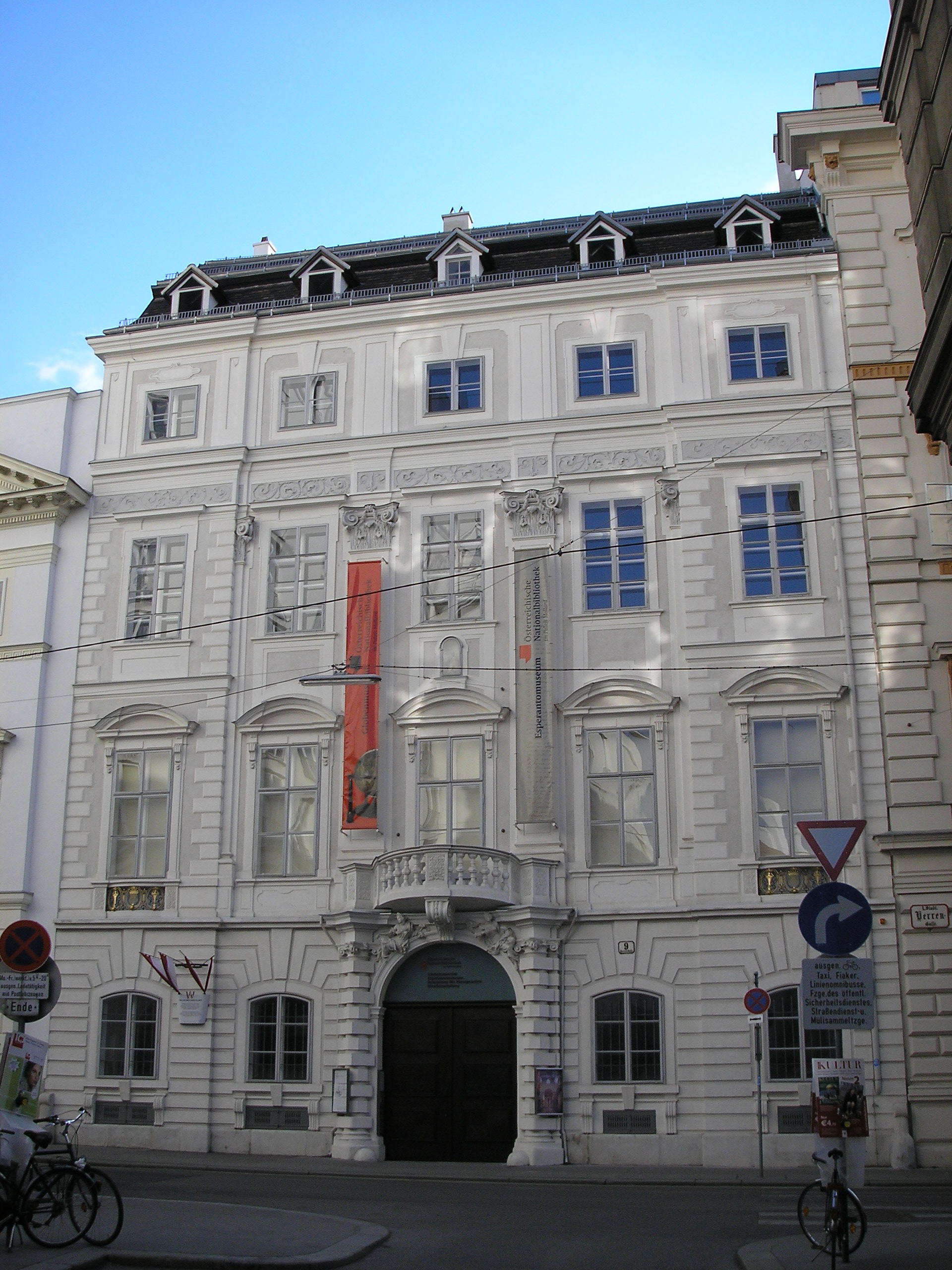 Palais Mollard-Clary in Vienna, Herrengasse